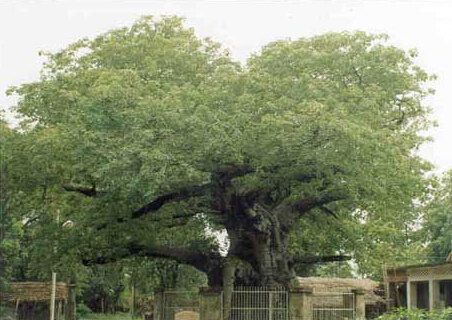 View of Parijat tree in the village of Kintoor, near Barabanki, Uttar Pradesh, India.